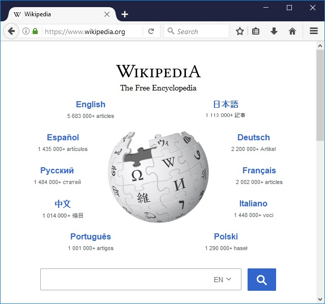 Basilisk browser displaying the Wikipedia's home on Windows 10.